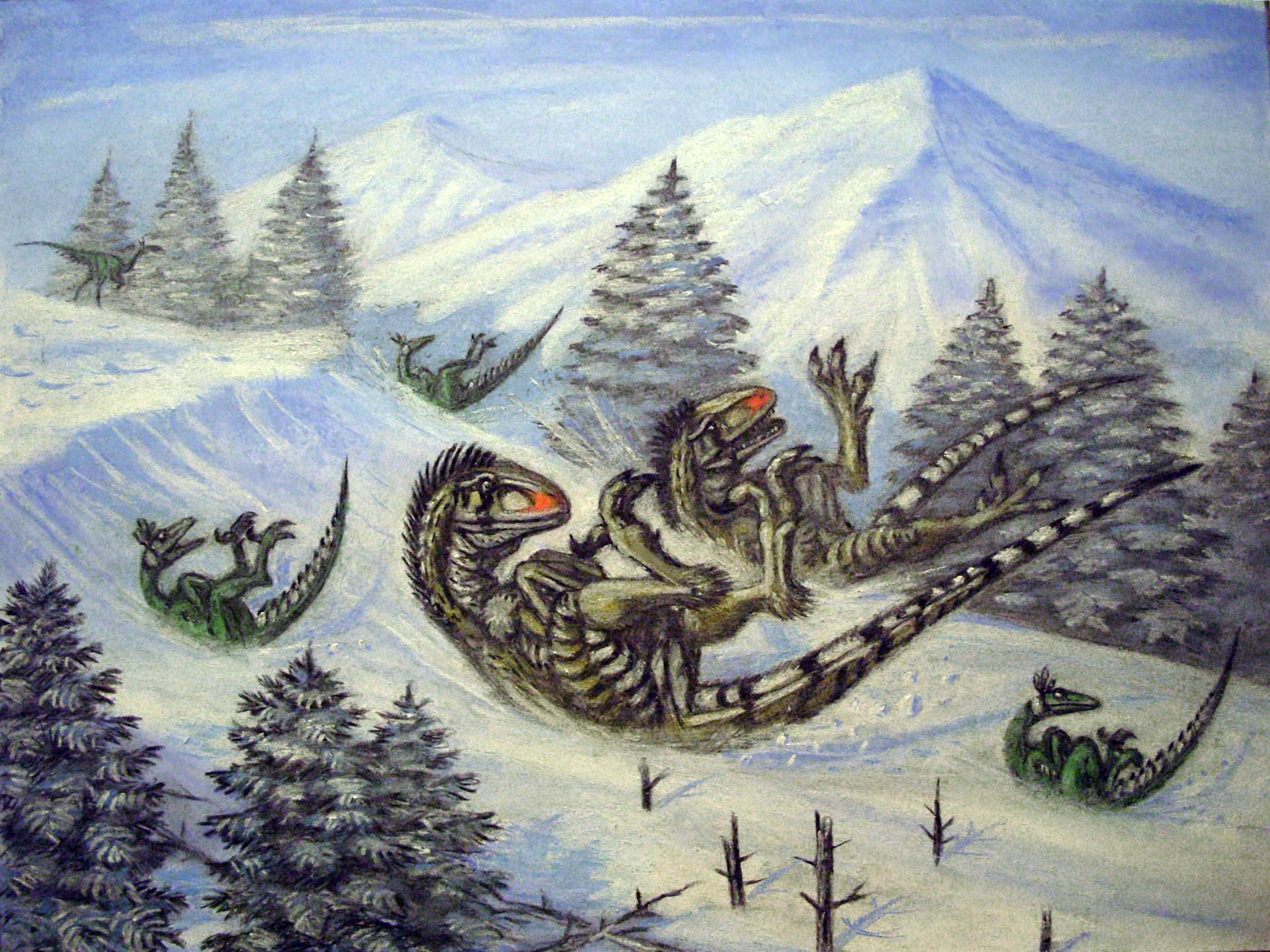 Raptor Red gliding in snow. Based on the novel by Robert Bakker.